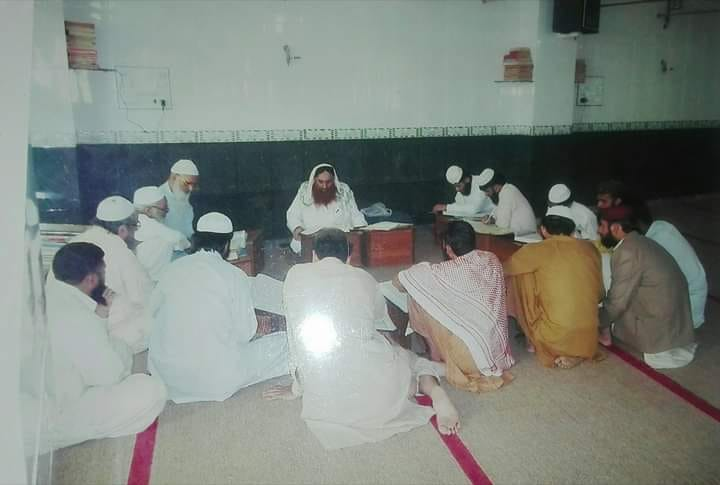 Zubair Ali Zai teaching Sunnan Abu Dawood in 2012